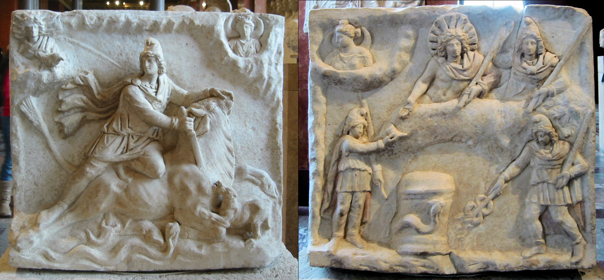 CIMRM 641: Two-sided white marble mithraic relief found at Fiano Romano, near Rome "couché dans un petit réduit de briques" in 1926. 2nd-3rd century CE. Obverse: Tauroctony scene. Mithras slaying the bull in a cave, above which in the upper corners Sol (top left) and Luna (top right) emerge. Luna has a crescent behind her shoulders. Around Sol's head is a crown of twelve rays, plus another that darts out in the direction of Mithras. Also in the upper left is a raven. The dog, serpent, scorpion are set at their standard positions. The tail of the bull ends in ears of wheat. A clearer photo of the obverse is at Image:Mithras tauroctony Louvre Ma3441b.jpg. Reverse: Banquet scene. In the middle, a bull's hide, of which the head and one hindleg are visible. Sol and Mithras recline on it side by side. Mithras holds a torch in his left hand and extends his right hand behind Sol. Sol is dressed only in a cape, fastened on his right shoulder with a fibula. Around Sol's head is a crown of eleven rays. He holds a whip in his left hand and extends the right towards a torchbearer who offers him a rhyton. In the lower right is another torchbearer, with raised torch in his left hand. In his right hand, a caduceus held into the water emerging from the ground. In the middle, an altar in the coils of a crested snake. In the upper left corner, Luna in a cloud, looking away. Traces of red paint on the attire of Sol, Mithras and the torchbearers. A clearer photo of the reverse is at Image:Mithras tauroctony Louvre Ma3441b.jpg.